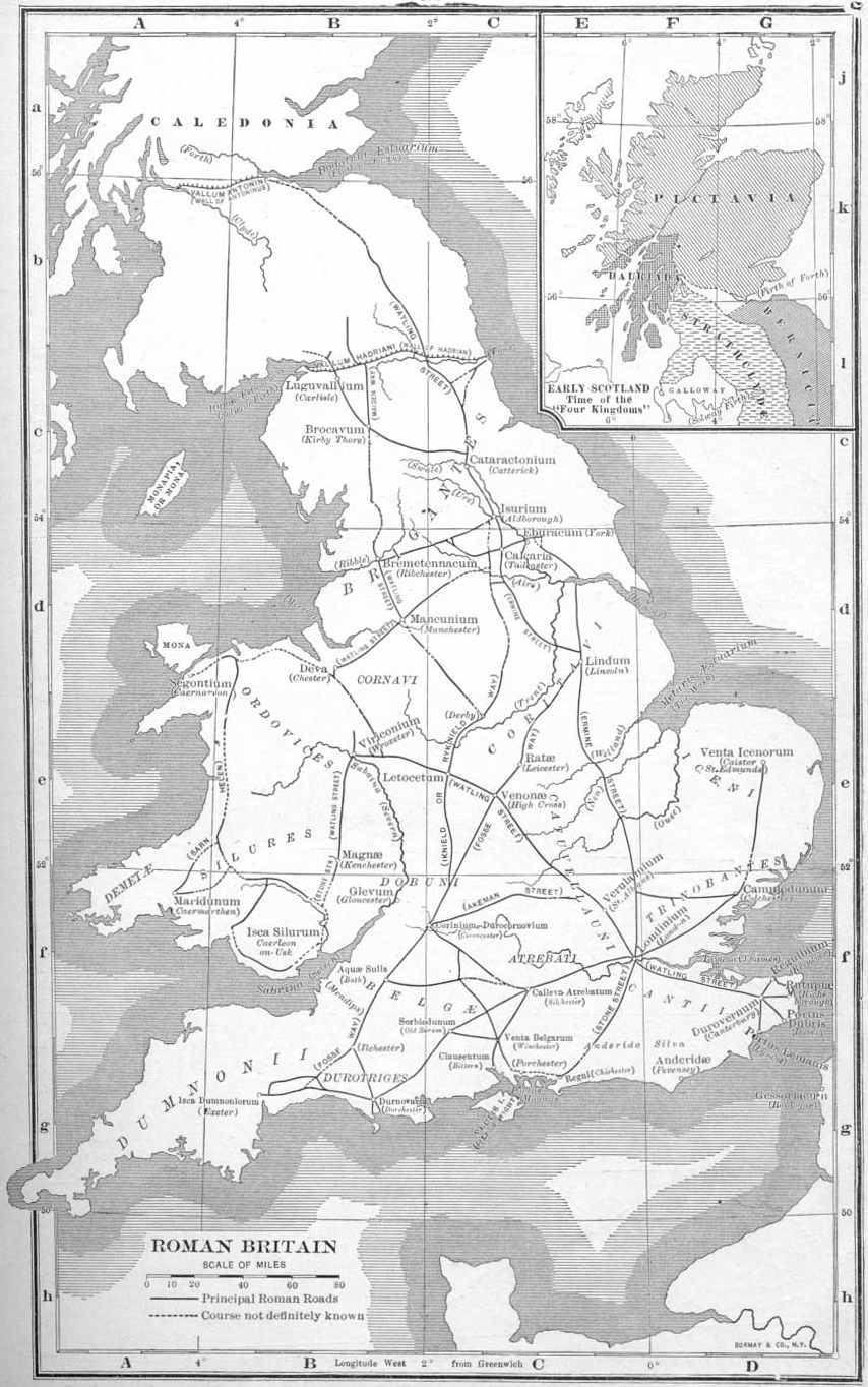 An outdated map of the Roman road network in Britain